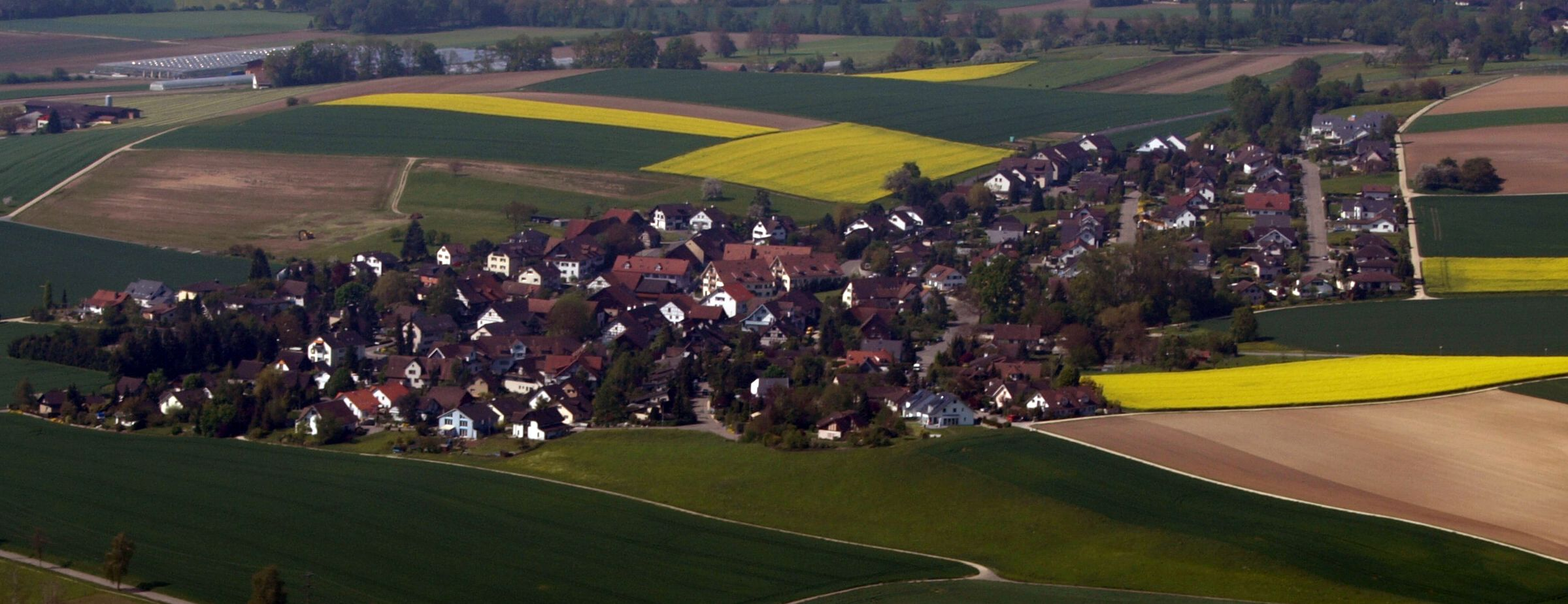 Aerial view of Riedt bei Neerach ZH, Switzerland